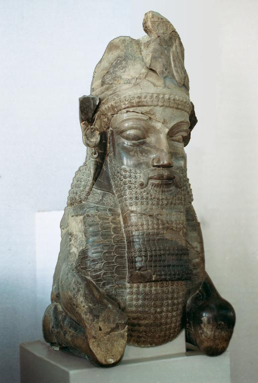 Column capital showing a human-headed bull, from Persepolis. National Museum, Tehran, Iran.